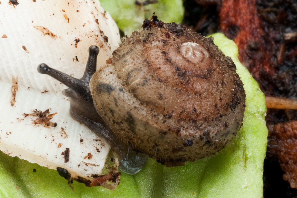 Stenotrema hirsutum. Locality: Frances Slocum, Luzerne Co., PA.